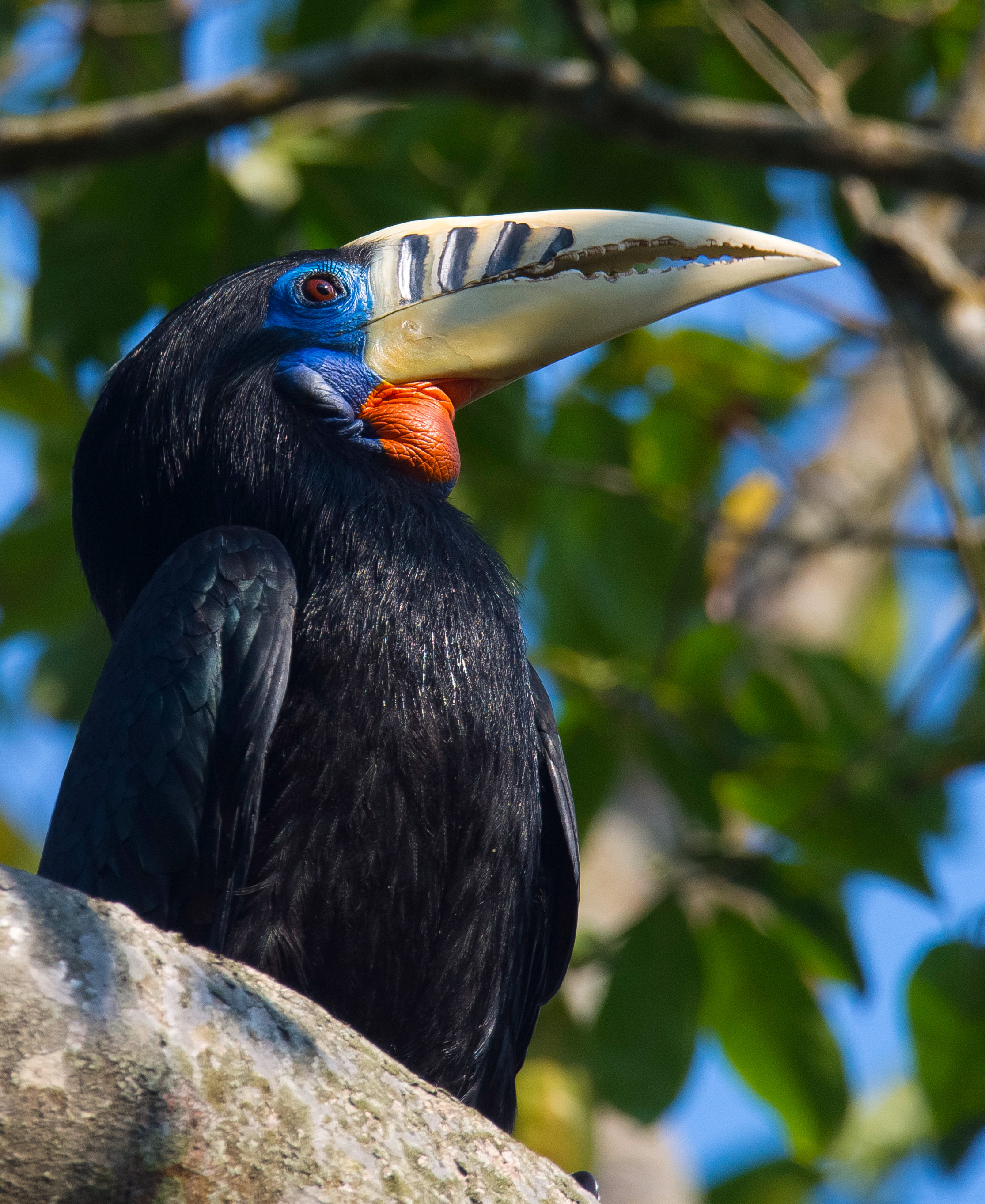 Rufous necked Hornbill female, Captured in Mahananda Wildlife Sanctuary, North Bengal, India.